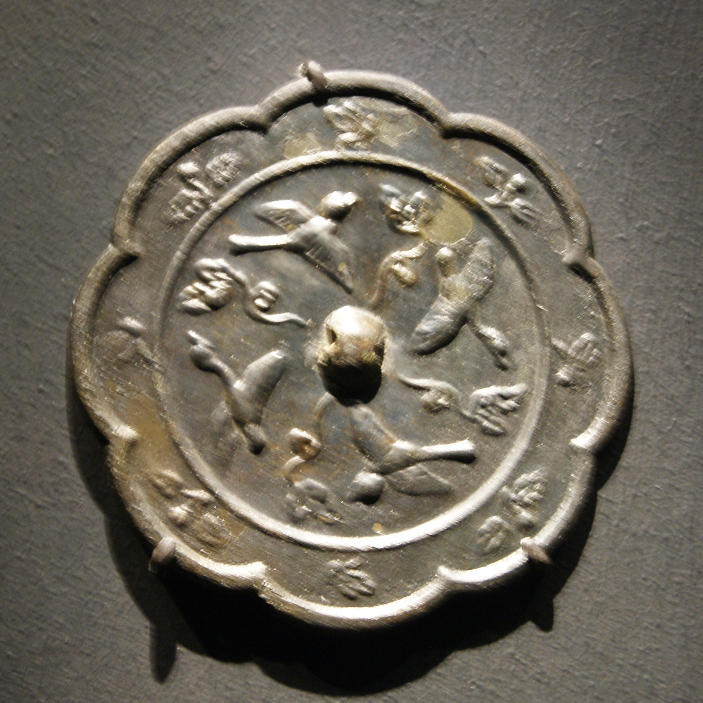 Part of the collection of artifacts from the Belitung shipwreck owned by the Sentosa Leisure Group and the Government of Singapore, photographed while displayed at an exhibition called Shipwrecked: Tang Treasures and Monsoon Winds at the ArtScience Museum, Marina Bay Sands, Singapore, from 19 February 2011 to 31 July 2011.